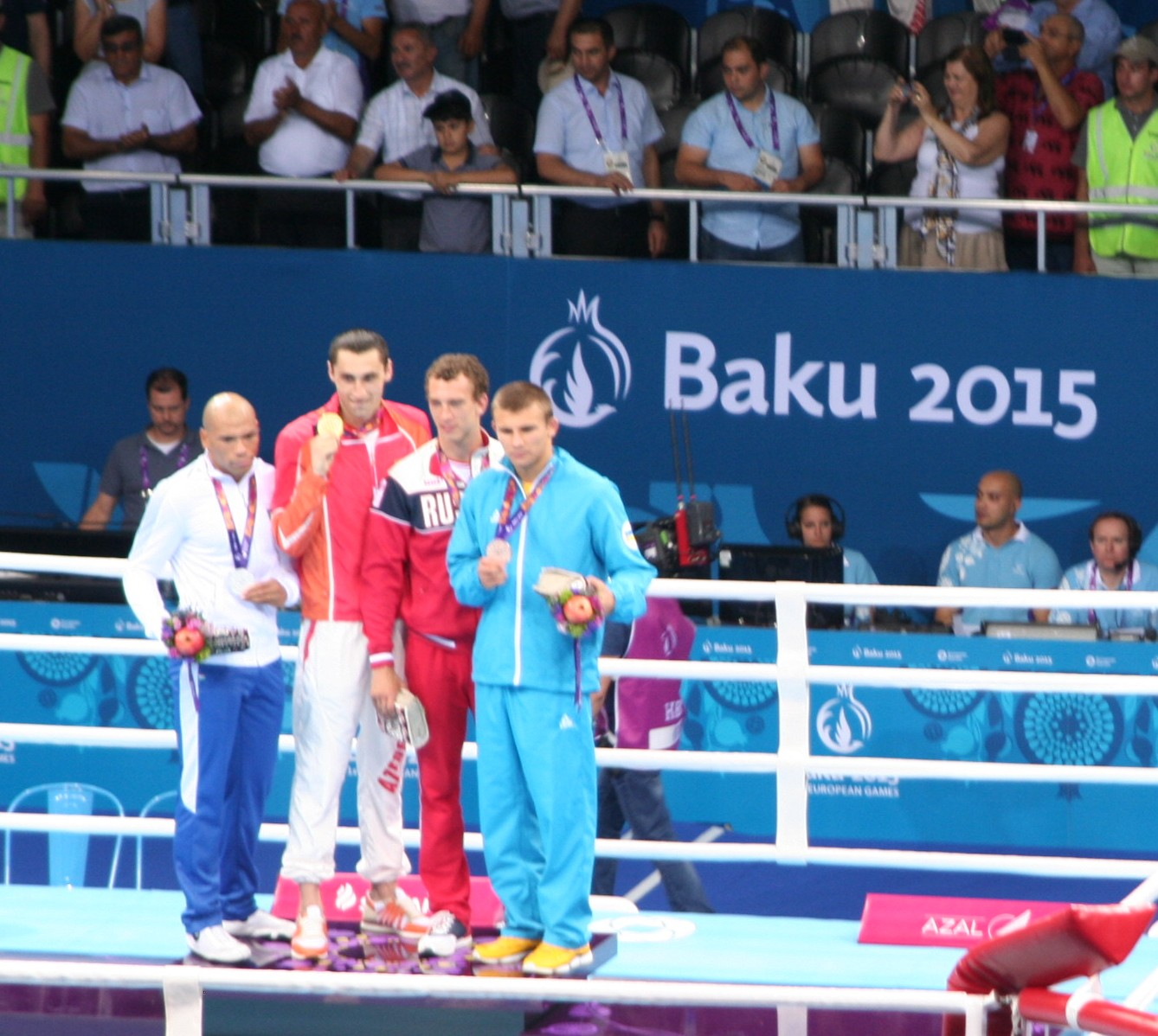 Teymur Mammadov at the awarding ceremony of the 2015 European Games